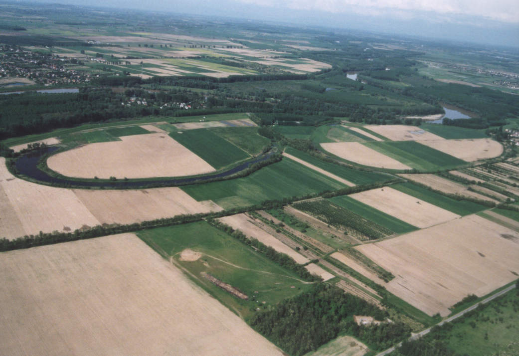 Dombrád - Hungary - Europe